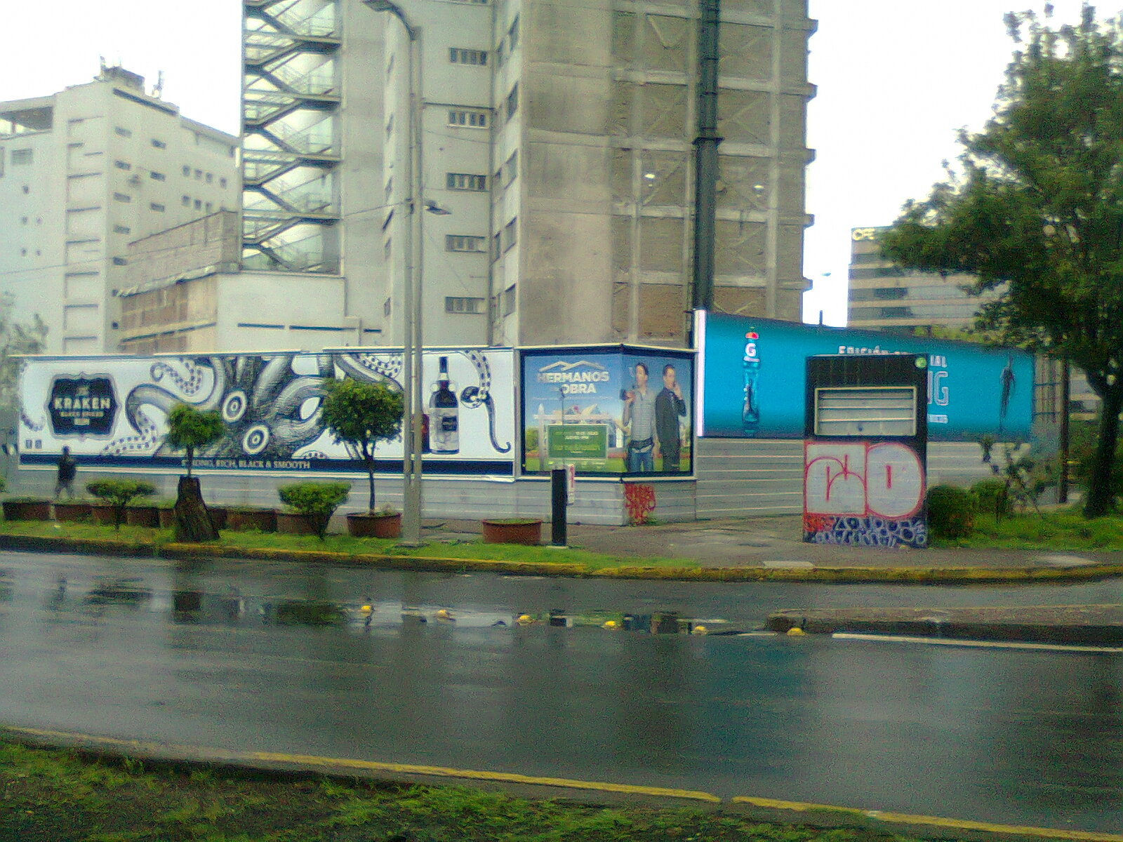 Puerta Ref